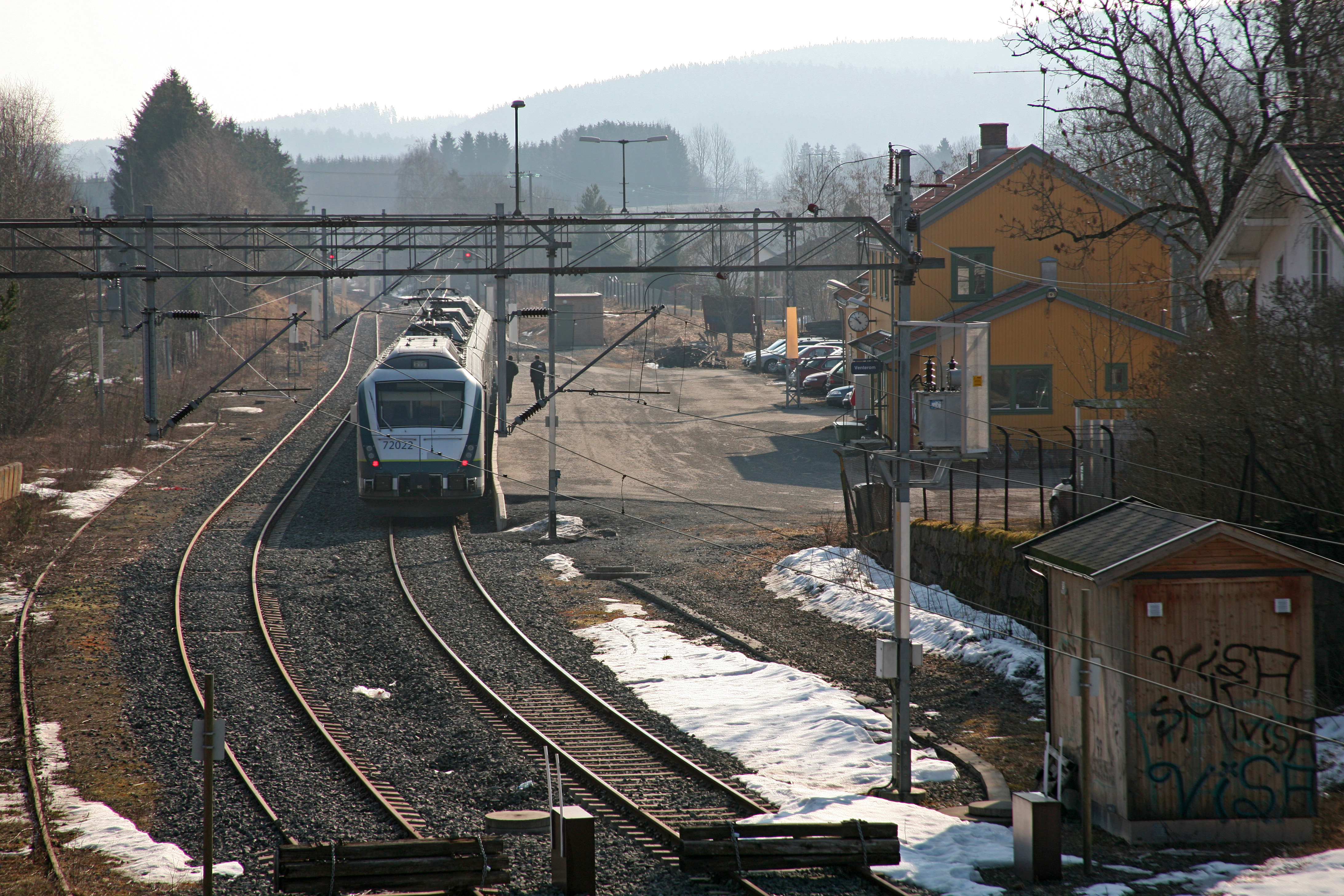 Picture of Spikkestad Railway Station (Buskerud - Norway)